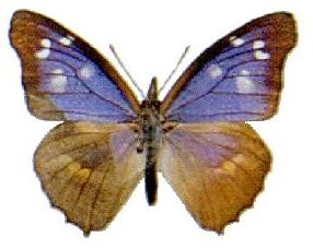 identifying features of Australian butterfly species wing pattern